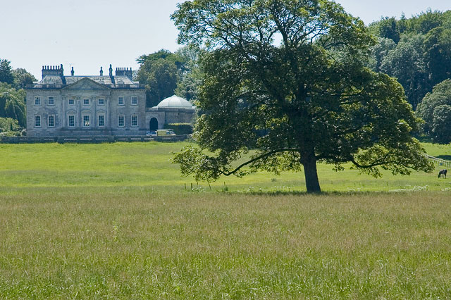 Came House, Winterborne Came. A view of Came House from the small estate road.